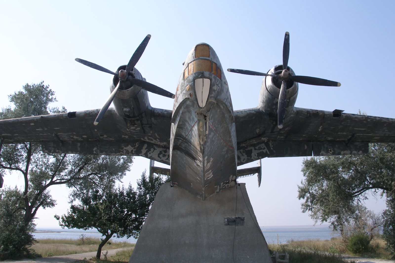 Be-6 in Donuzlav, Eupatoria.